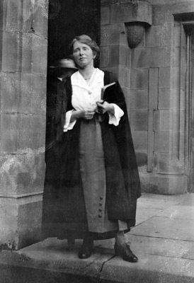 A portrait of Jessie Webb, lecturer in history at the University of Melbourne, in academic dress, standing outside what is now the Old Law building at the University. Taken by Doris McKellar, date unknown (certainly between 1908 and 1944), though probably between 1914 and 1918, when McKellar took portraits of many University staff. The original is a black and white transparency, 12 by 8.5 cm.